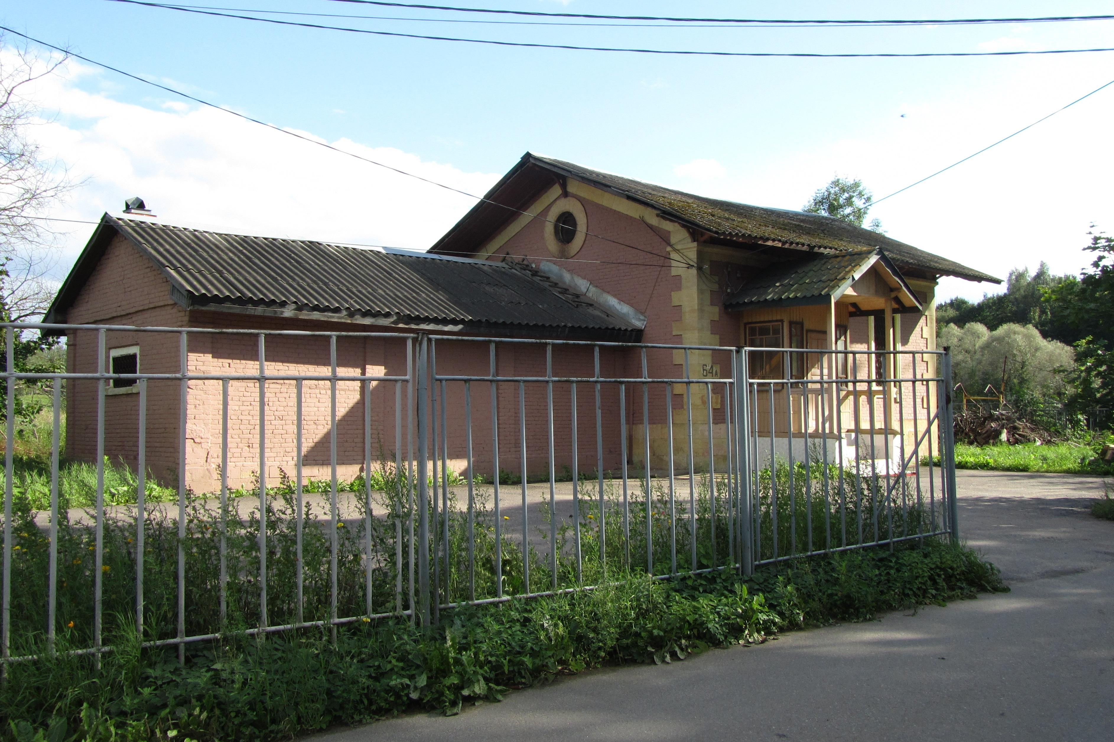 Former guardhouse on the bank of Chernoye Lake, Gatchina, Russia